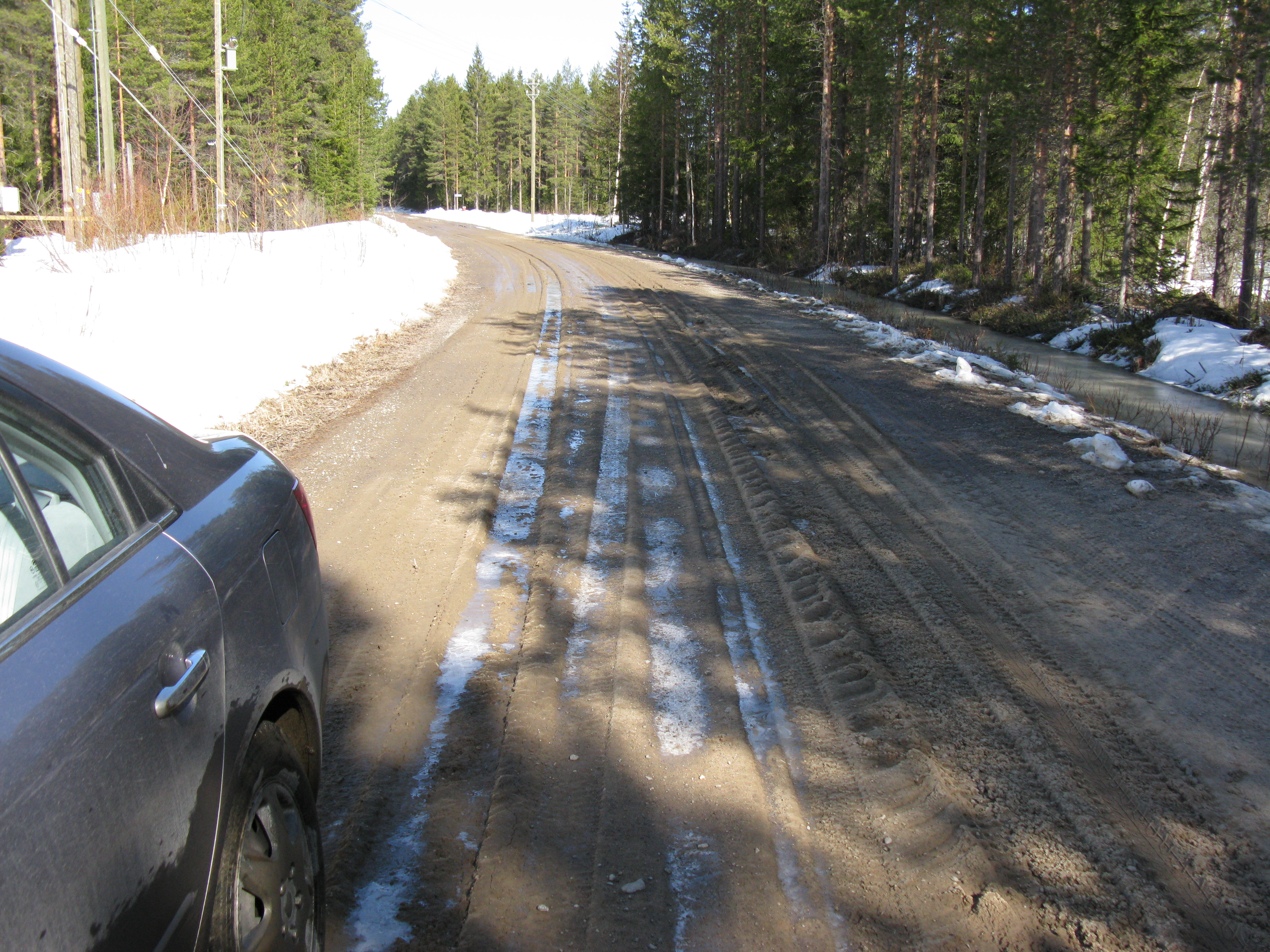 Spring-time road in Utajärvi, Finland.